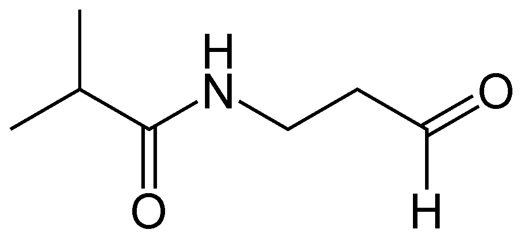 Luciferin from Diplocardia longa